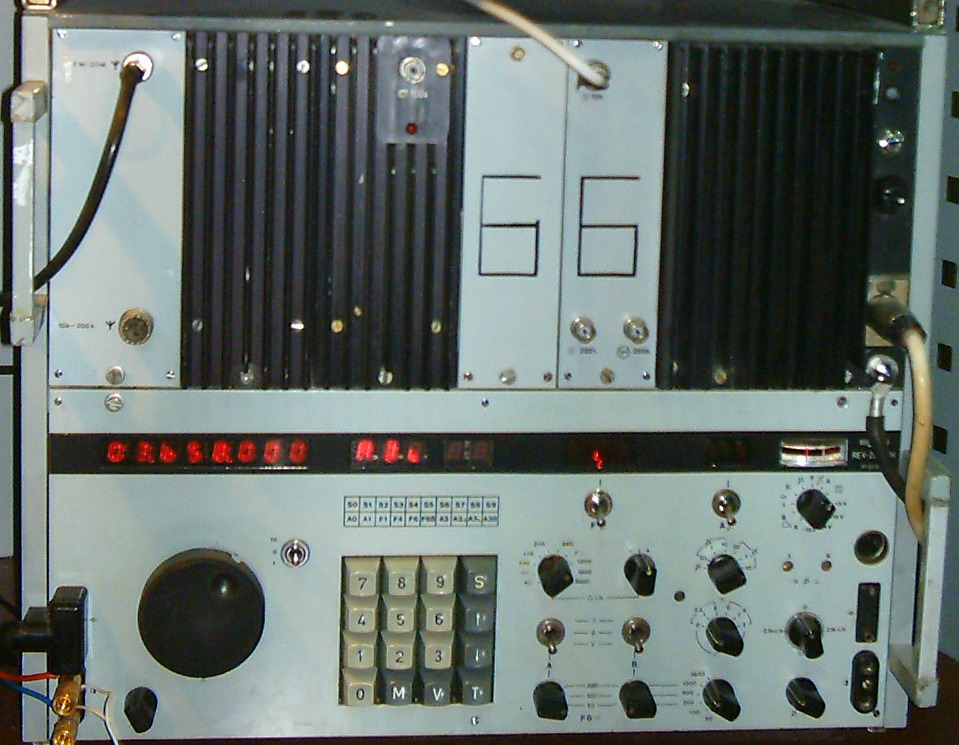 The REV-251M was a Hungarian-made commerical and military shortwave radio, 0,2 – 29.999999 MHz, supplied to the Polish Army. Manufactured by Mechanikai Laboratórium (ML, Mechlabor) Budapest. The '66' marks are a later 'addition'. According to [1], introduced in 1983